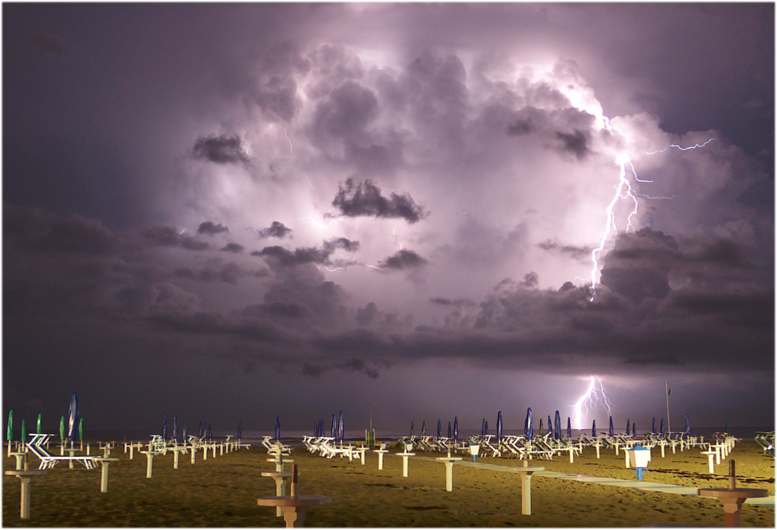 Lightning cloud to sea over Miramare di Rimini, Italy